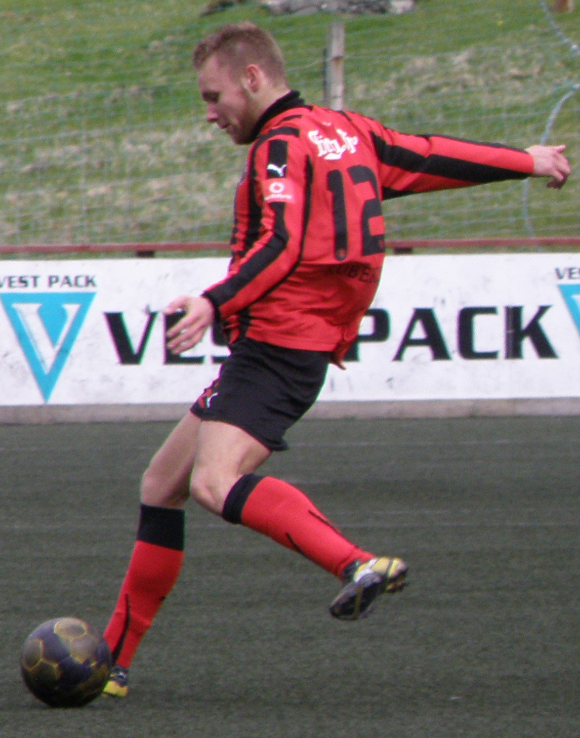 Hendrik Rubeksen is a Faroese football player. He currently plays for HB Tórshavn (2010), he also played for HB Tórshavn 2001-2006 and in 2008. In 2009 he played for 07 Vestur, in 2007 for GÍ Gøta (now called Víkingur Gøta) and for AB Argir, in 2006 he played for B68 Toftir a part of the year. Rubeksen is in the Faroe Islands national team's squad. He has played a few matches for his country until now. He has played four full matches in the UEFA European Football Championship (Qualifying round) in 2010. This photo was taken in Vágur on 29 May 2010 in the match against FC Suðuroy. HB Tórshavn won the match 3-0. Føroyskt: Hendrik Rubeksen er føroyskur fótbóltsleikari. Hann spælir í løtuni við HB, har hann eisini spældi í tíðarskeiðnum 2001-06. Harumframt hevur hann spælt við øðrum føroyskum feløgum: 07 Vestur, GÍ, AB og B68. Hendrik Rubeksen er eisini við í føroyska A-landsliðshópinum í 2010. Hann hevur leikt fýra dystir í UEFA kappingini í innleiðandi umfarinum í augst, september og oktober 2010. (Hetta er skrivað 9. oktober 2010). Myndin er tikin vesturi á Eiðinum í Vági í Vodafon dystinum móti FC Suðuroy. HB vann dystin 3-0.